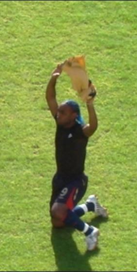 Vágner Love is a Brazilian football striker who currently plays for CSKA Moscow.